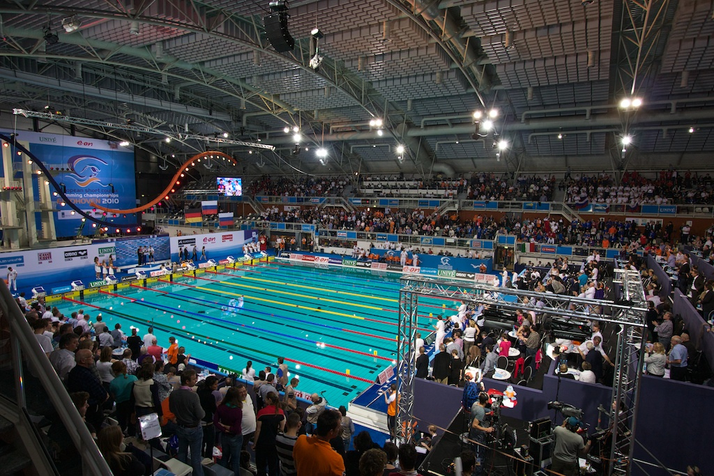 European short course championships 2010 Eindhoven